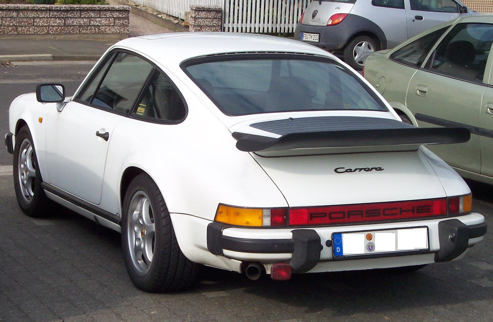 This picture may have usage restrictions - Porsche Carrera